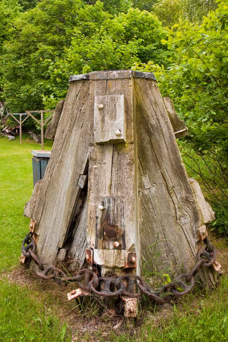 Duc d’albe from the old port of the Danish isle Anholdt used decoratively